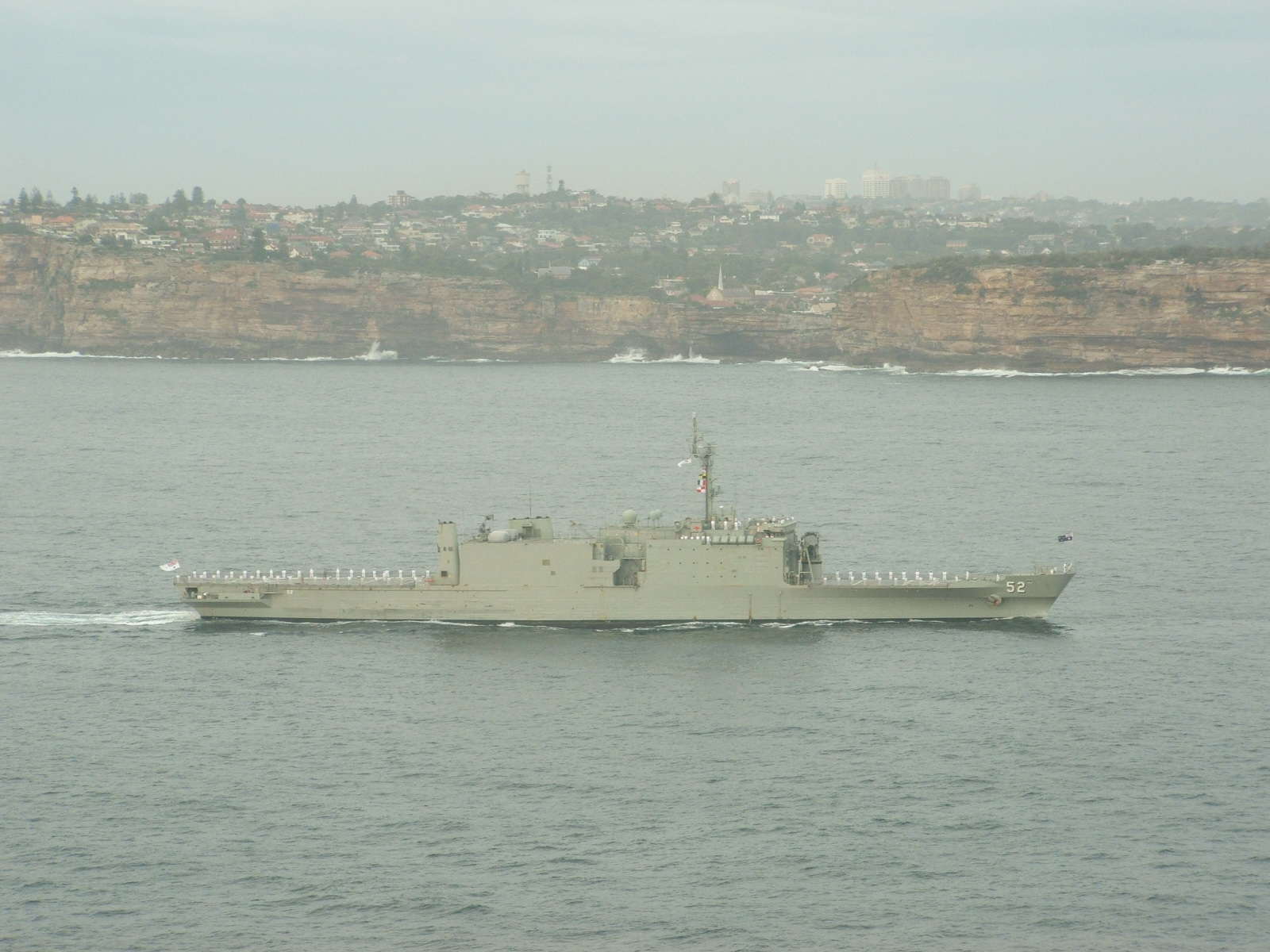 The Kanimbla class amphibious transport HMAS Manoora entering Sydney Harbour as part of a ceremonial fleet entry. Taken from North Head.